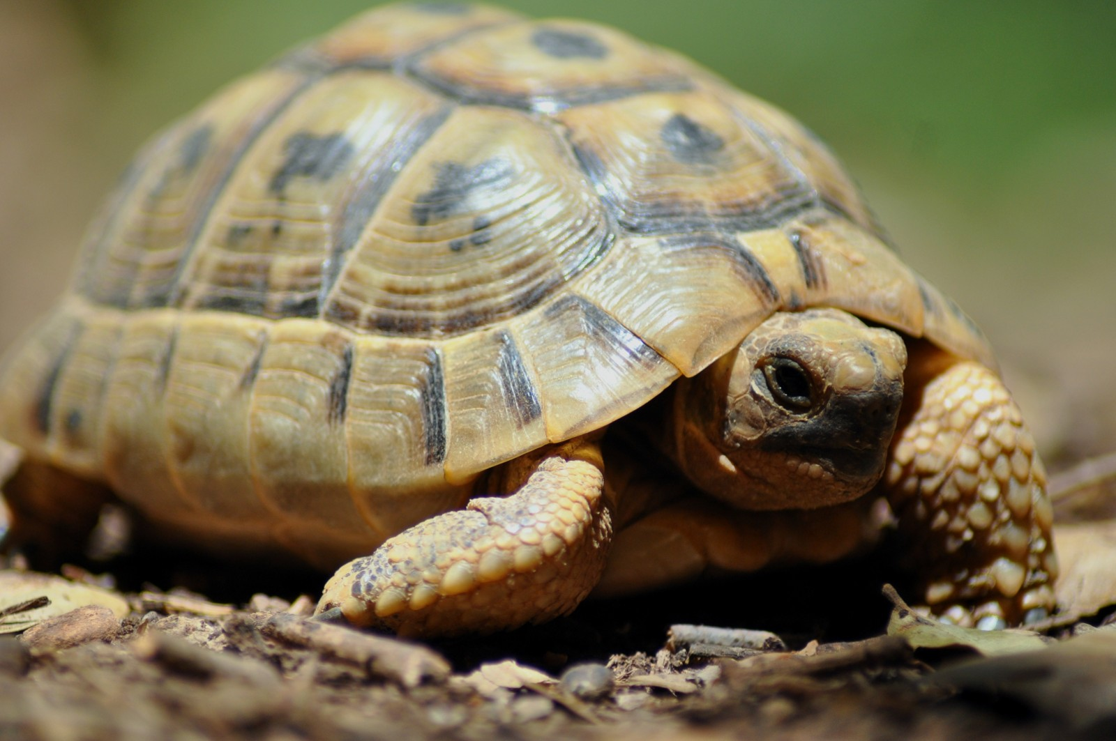 Wildlife and Plants of Israel